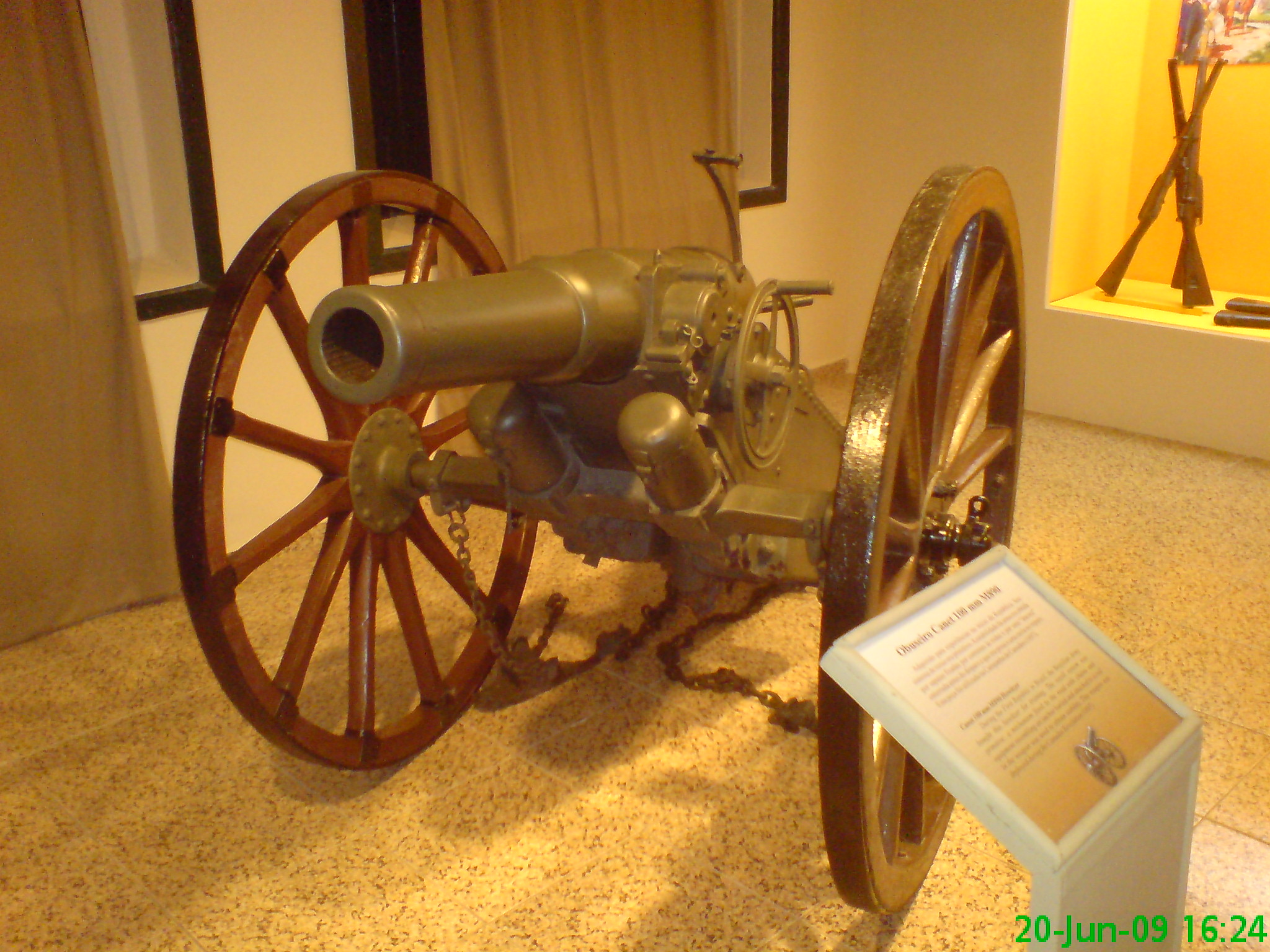 One surviving Canet M890 (100mm) gun used by the Brazilian Army to control the Canudos uprising in 1897. This piece of artillery can now be seen at the Museu Militar Conde de Linhares (Count Linhares Military Museum) in Rio de Janeiro, Brazil.